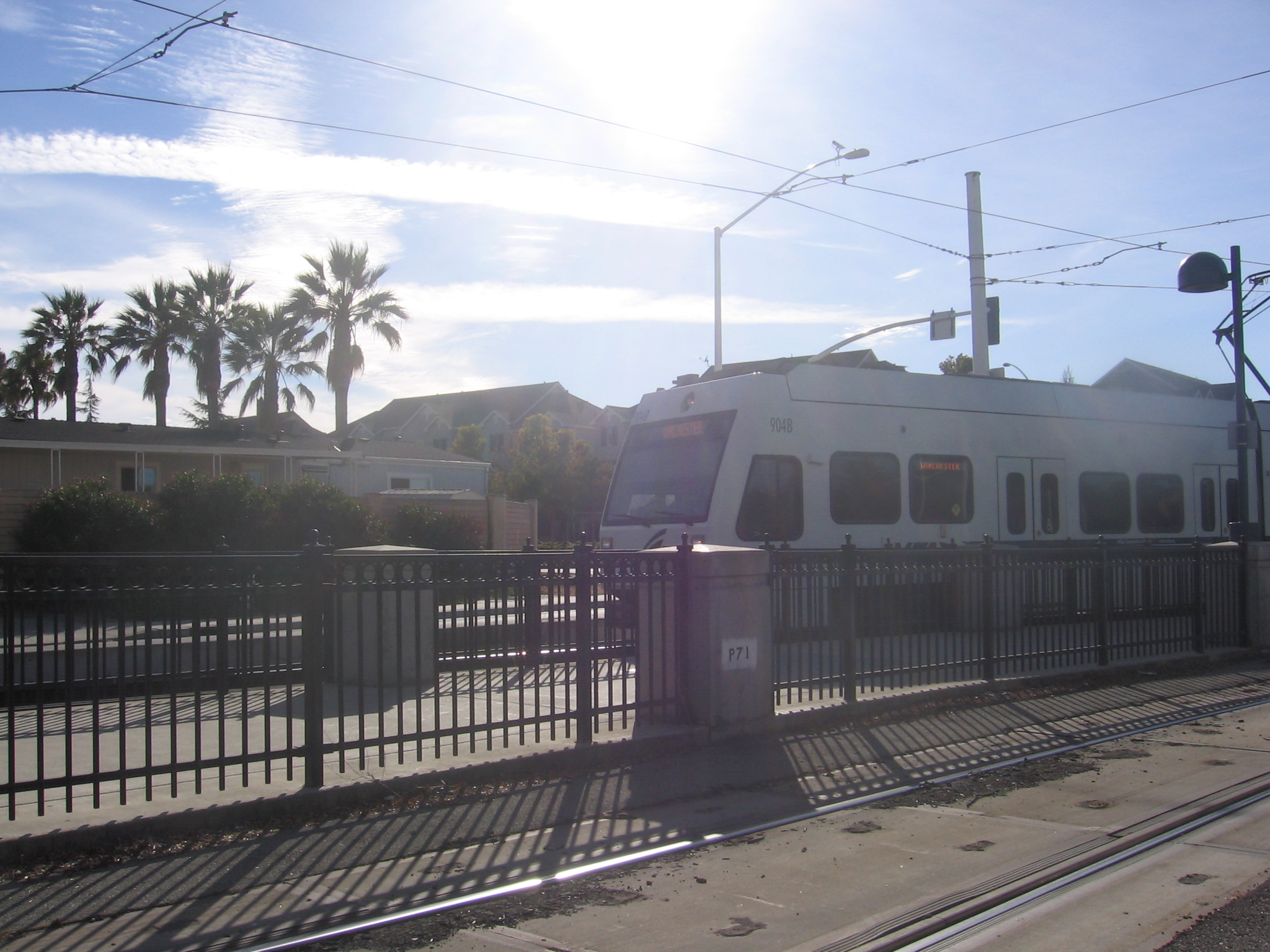 The Fair Oaks (VTA) light rail station in Sunnyvale, California, USA.